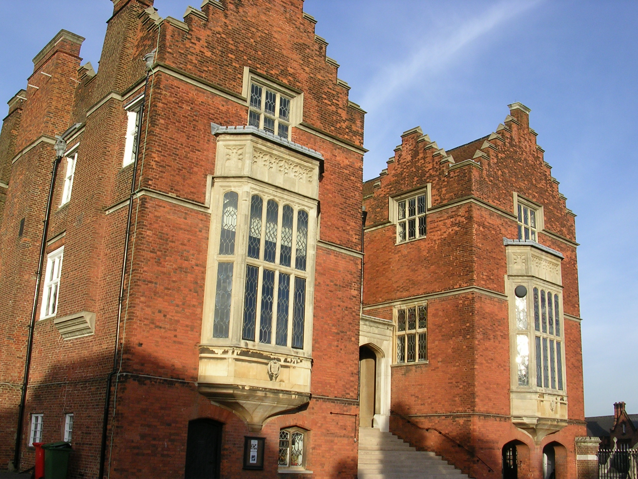 The Old Schools at Harrow School in Harrow on the Hill, London, England, in the UK.